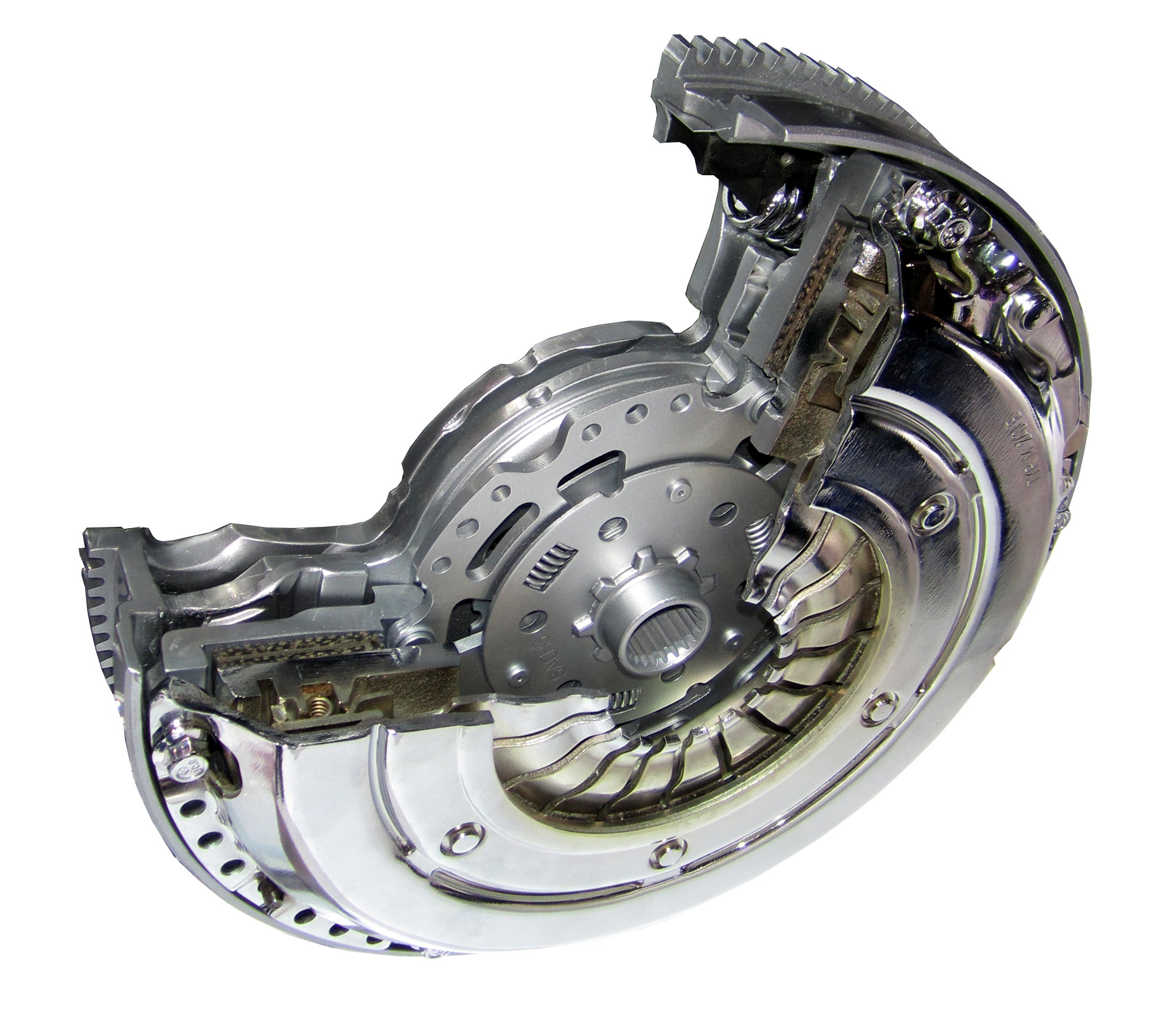 cut-out of a dual mass flywheel of an Opel engine A16XHT with clutch and toothring for the starter